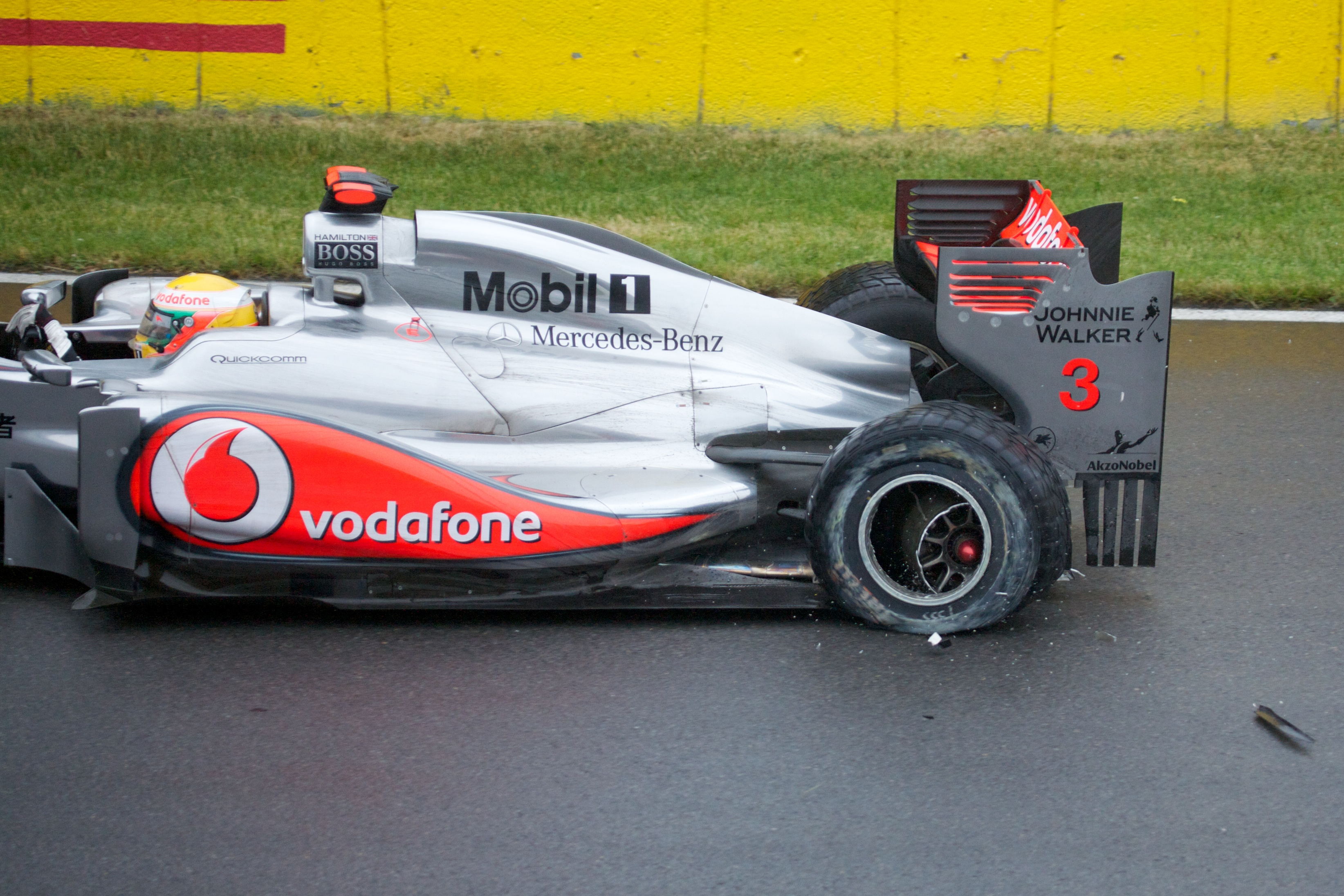 White paint from the wall